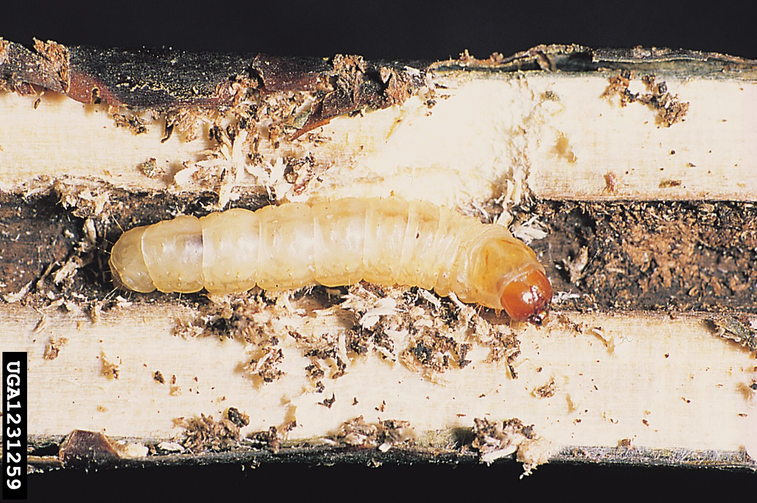 Caterpillar of Synanthedon tipuliformis